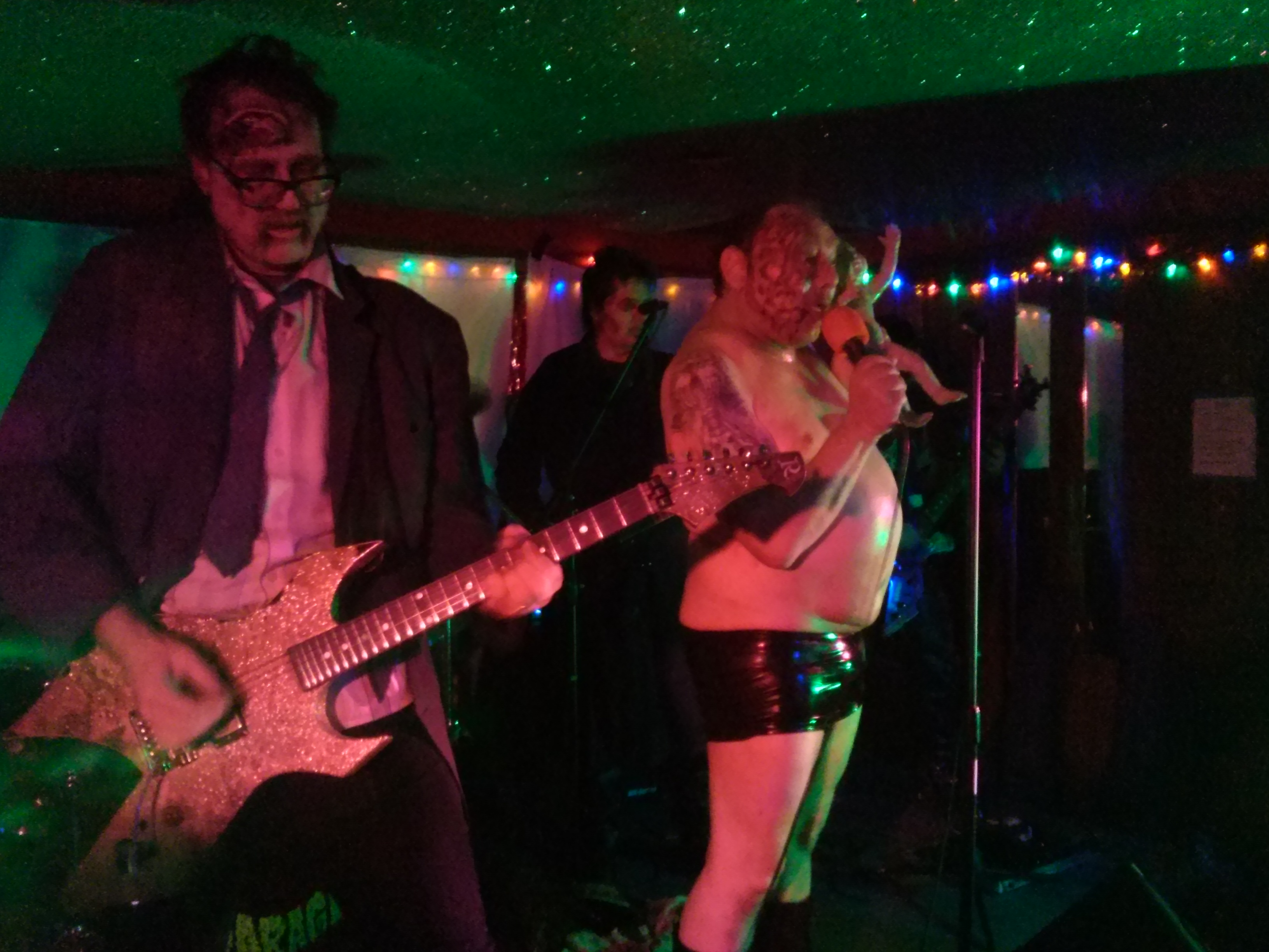 Haunted Garage performing a reunion show in Los Angeles on November 1, 2013